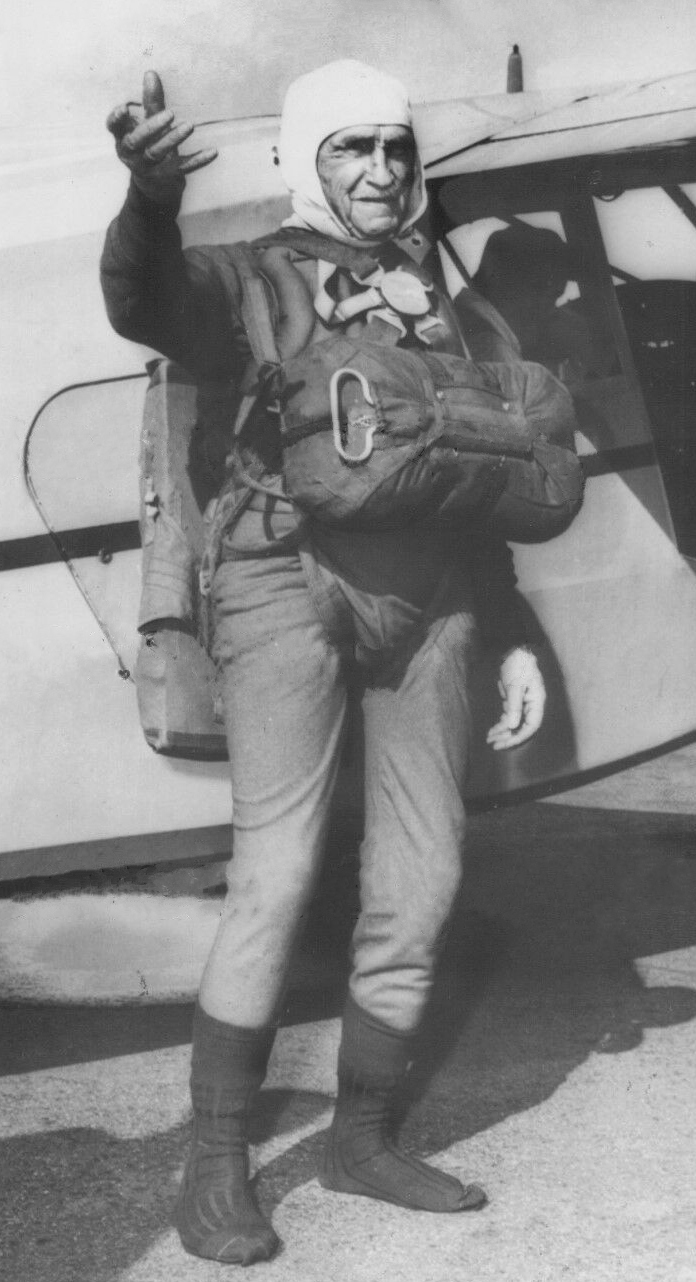 1951 83 Yr Old Skydiving Bodybuilder Bernarr MacFadden Teterboro NJ Press Photo